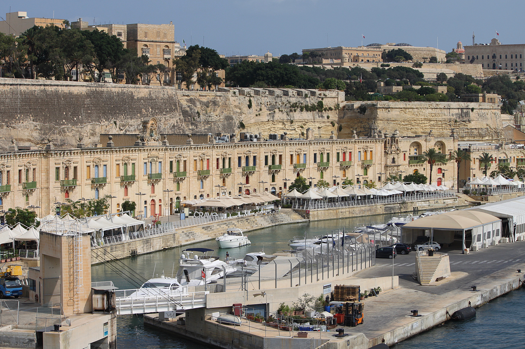 Valletta waterfront, seen from M/T "Barbara Krahulik".